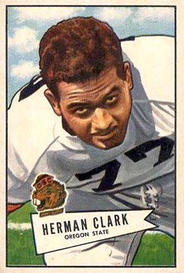 American football player Herman Clark on a 1952 Bowman Large card.